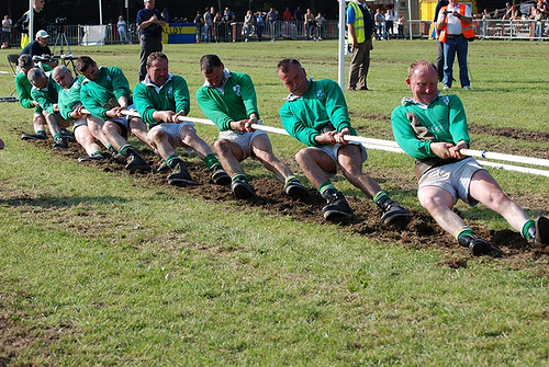 Author: Irish Tug of War Source: (OWN)